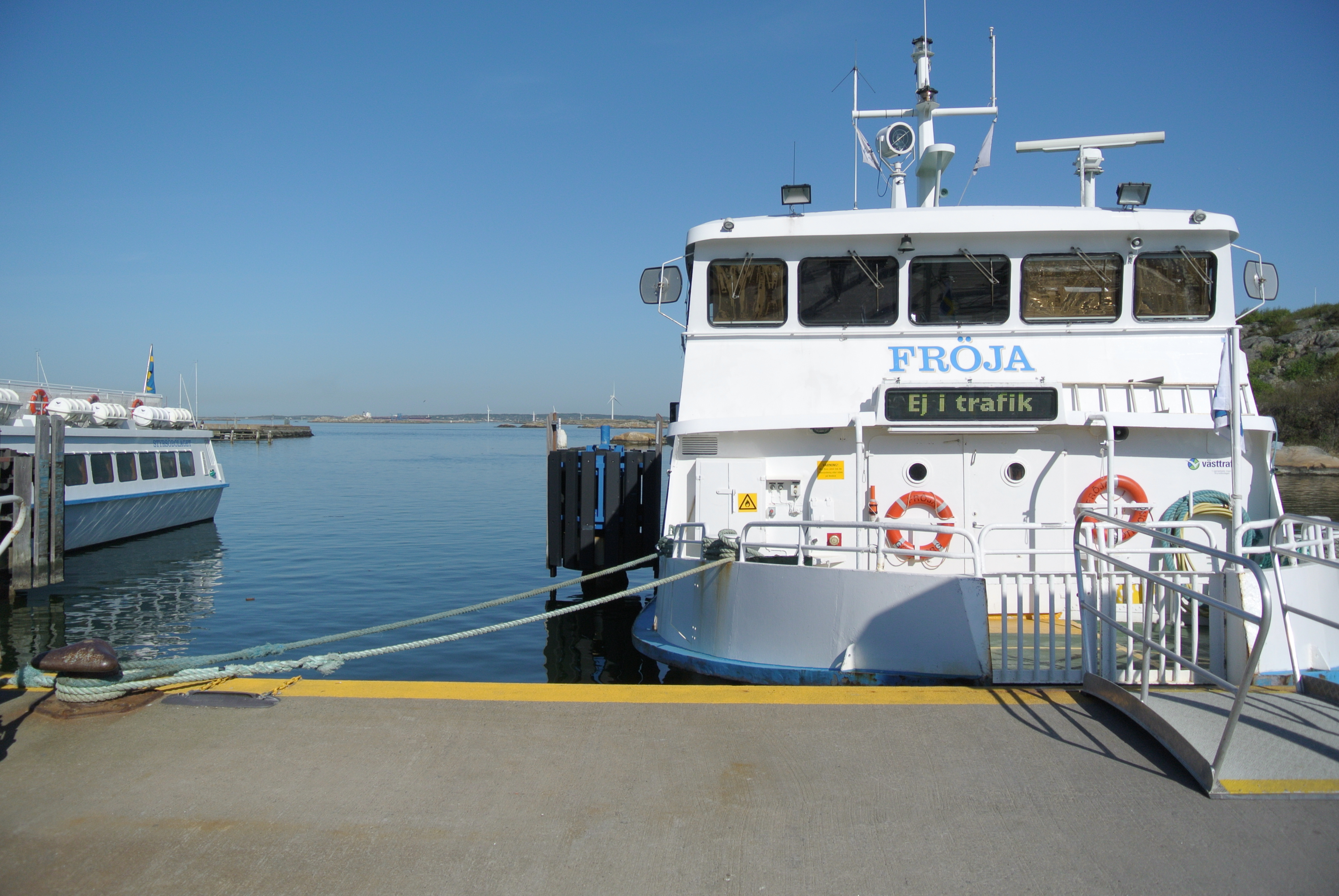 Ferry to Gothenburg's archipelago in Saltholmen, ship named Fröja.